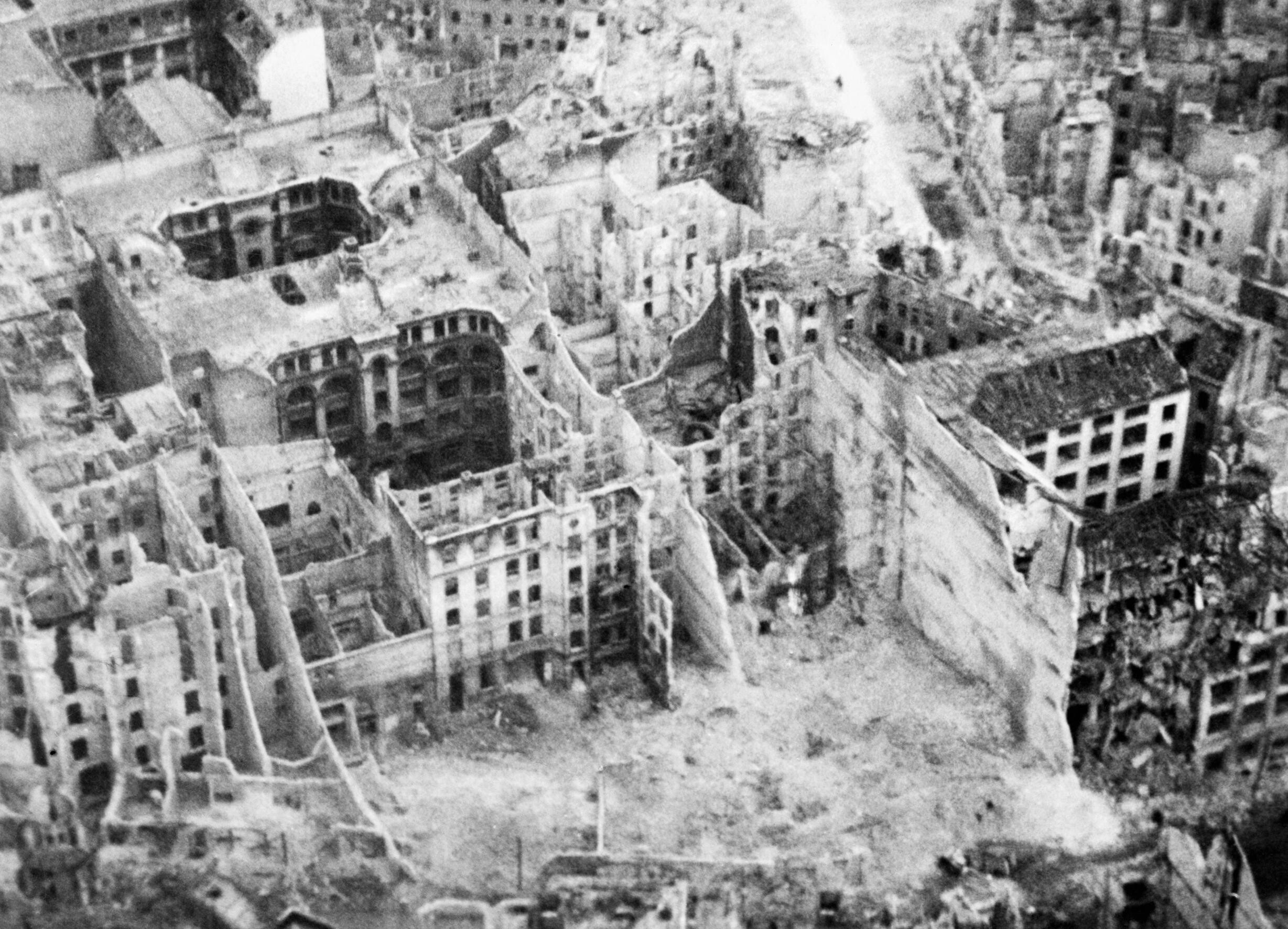 Berlin- the Capture and Aftermath of War 1945-1947 An aerial (oblique) photograph taken from a De Havilland Mosquito of the RAF Film and Photographic Unit showing badly damaged buildings in the area between Friedrich Hain and Lichtenberg, Berlin.